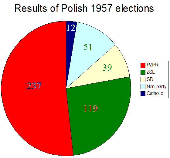 Prepared by User:Piotrus based on data from Polish legislative election, 1957 (Richard F. Staar, Elections in Communist Poland, Midwest Journal of Political Science, Vol. 2, No. 2 (May, 1958), pp. 200-218) Results immediate after elections in January. By-elections slightly changed this later (See article).